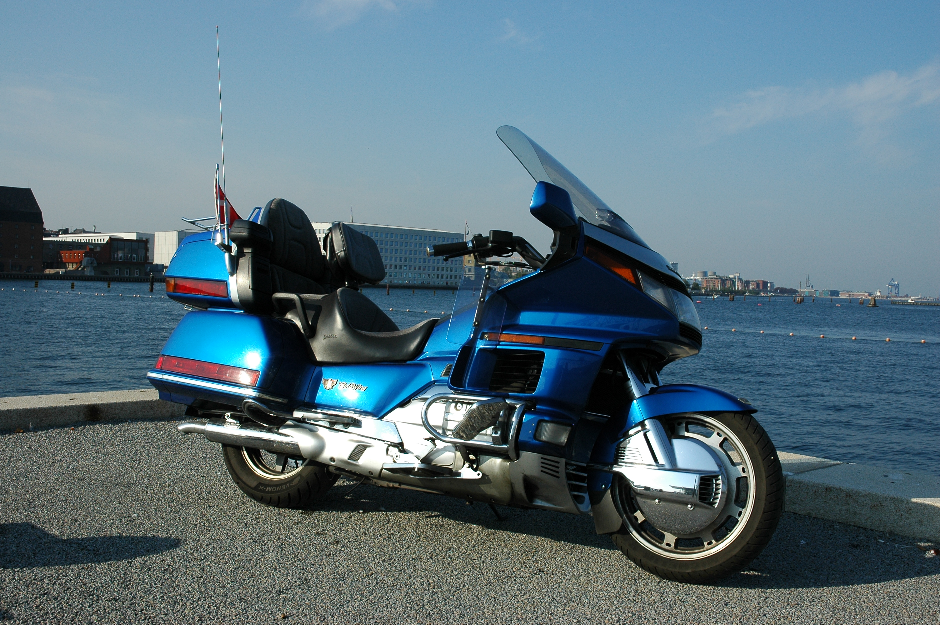 Honda Goldwing GL1500, Aspencade, 1992